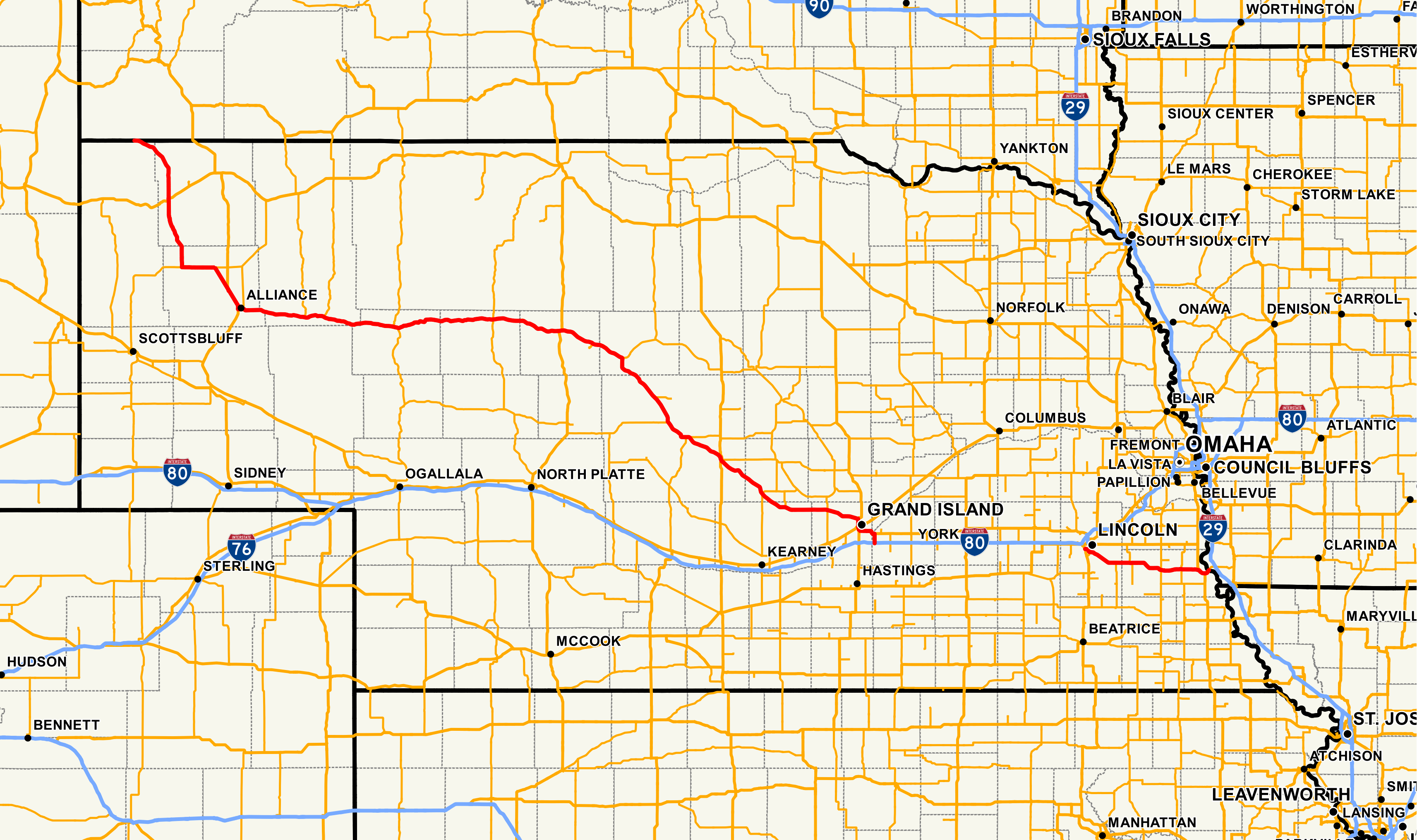 Map of Nebraska Highway 2